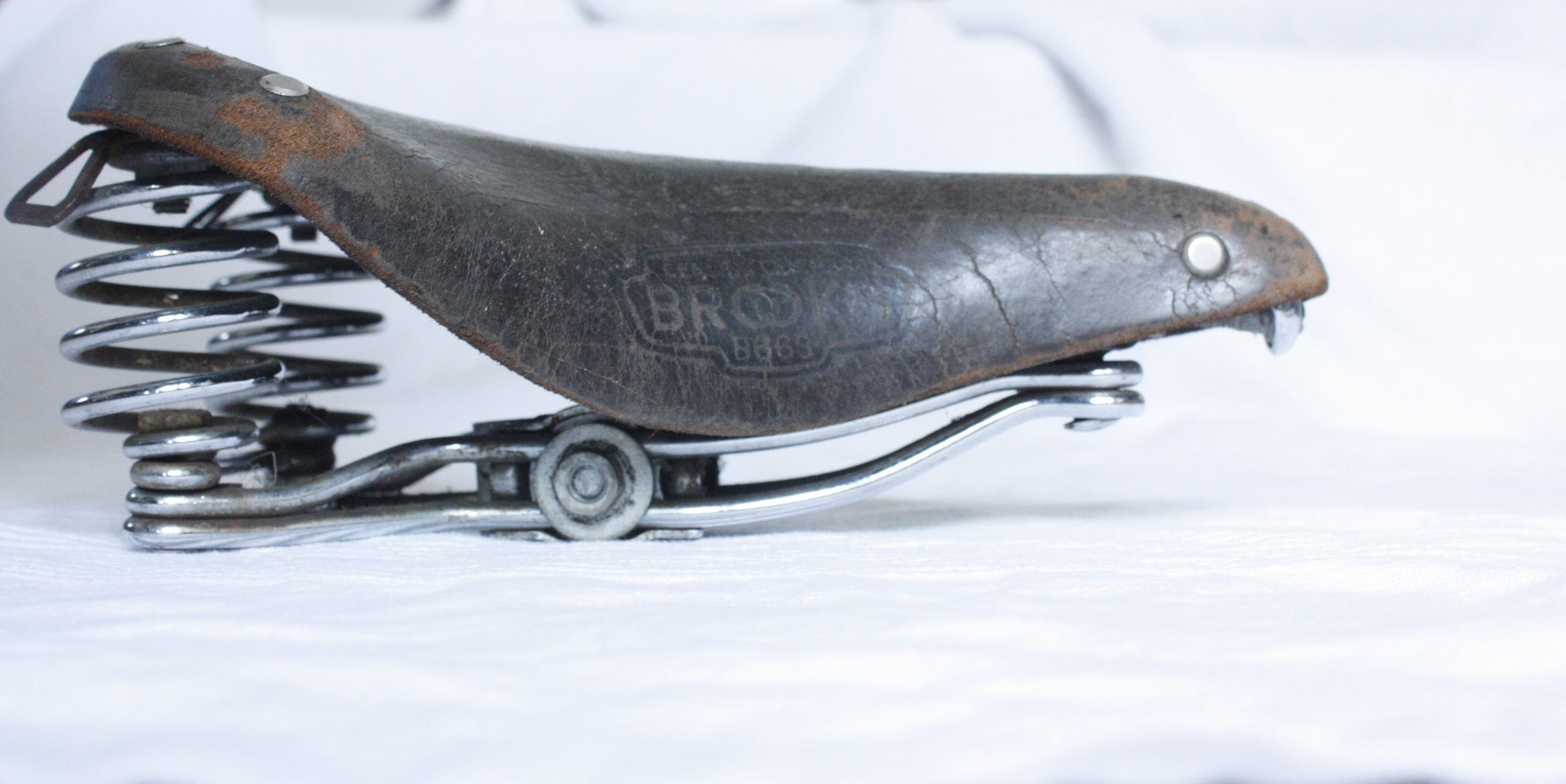 Brooks Saddel